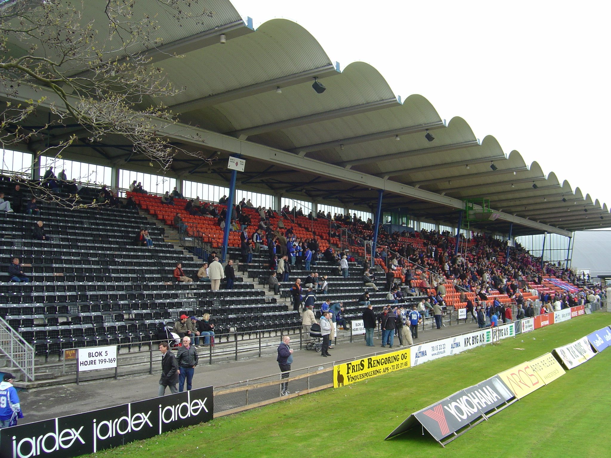 Valby Idrætspark - showing the one side of the stadium with the main stand, during a Danish 1st Division (level 2) match between Boldklubben Frem and Boldklubben Fremad Amager on 1 May 2005.